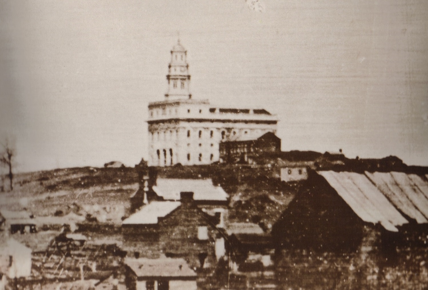 The Nauvoo Temple, c. 1846, a daguerreotype (a naturally reversed image produced on silver-plated copper) by Lucian R. Foster, flipped here to present an image of the 'Temple on the hill' just as a visitor of the time would have seen it, towering over the city upon a high bluff.